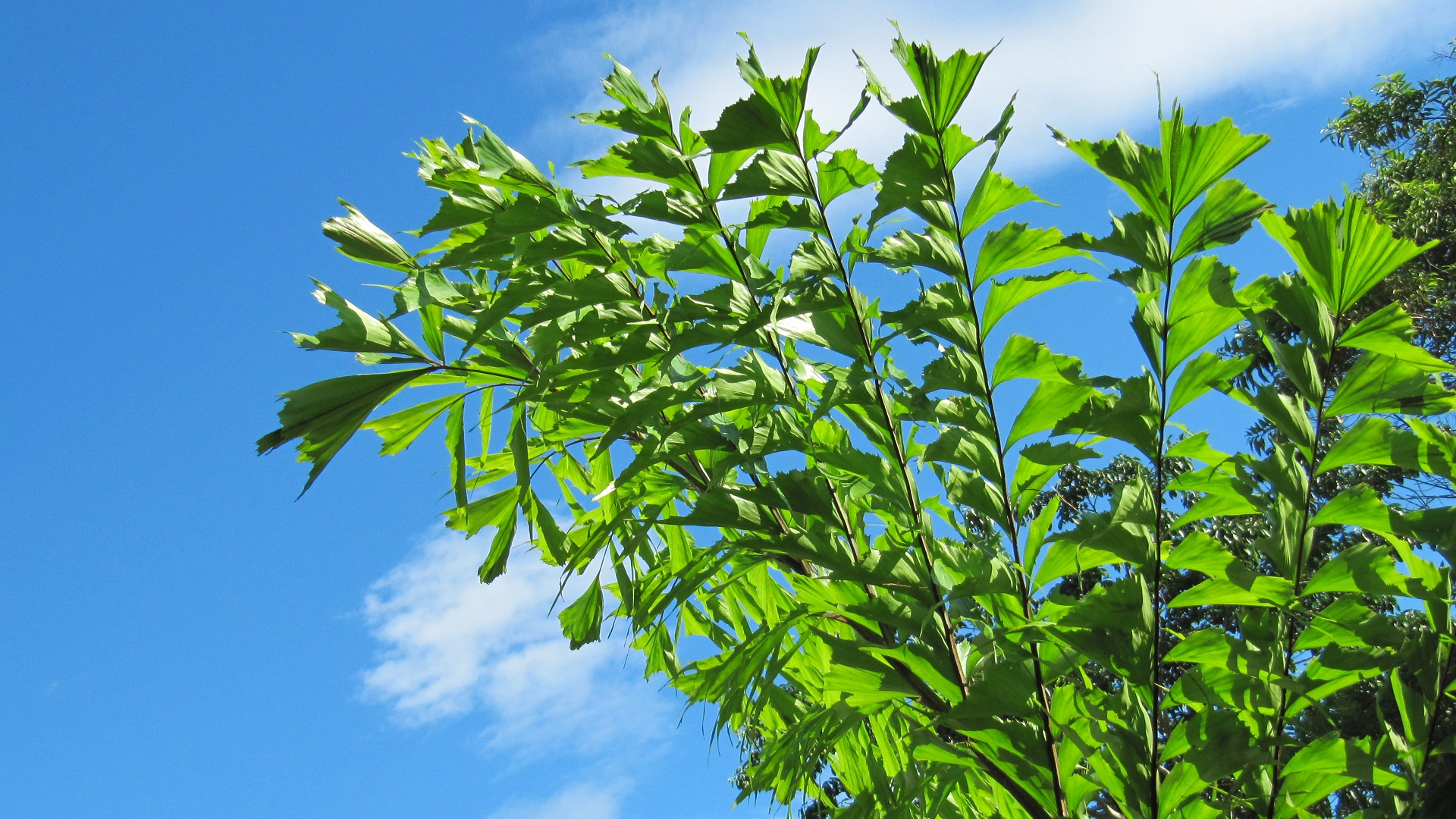 Branches and leaves of a solitary fishtail palm (Caryota urens). Spotted in Ubatuba, Brazil.